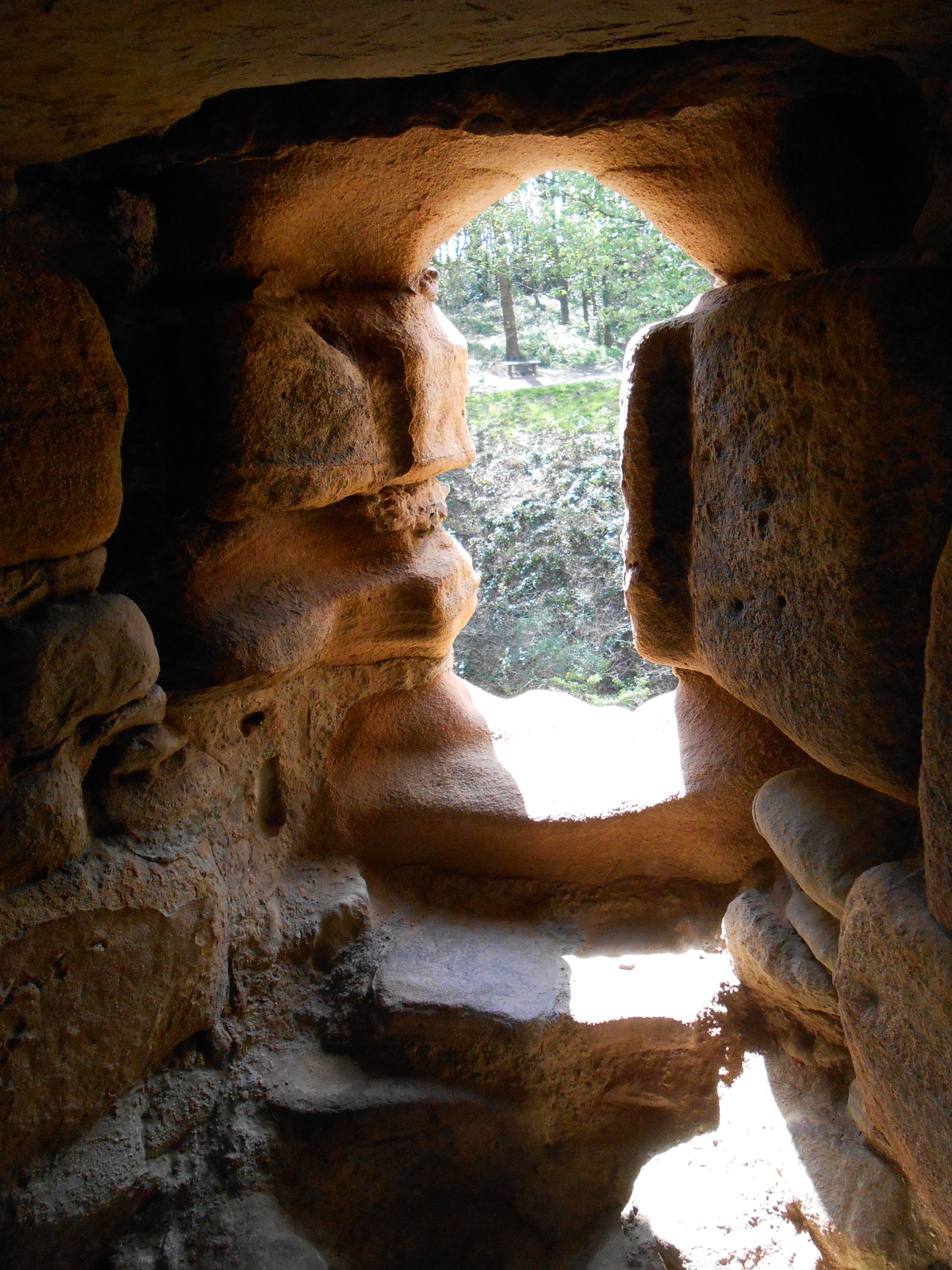 Looking out from inside Ewloe Castle, Flintshire, Wales.